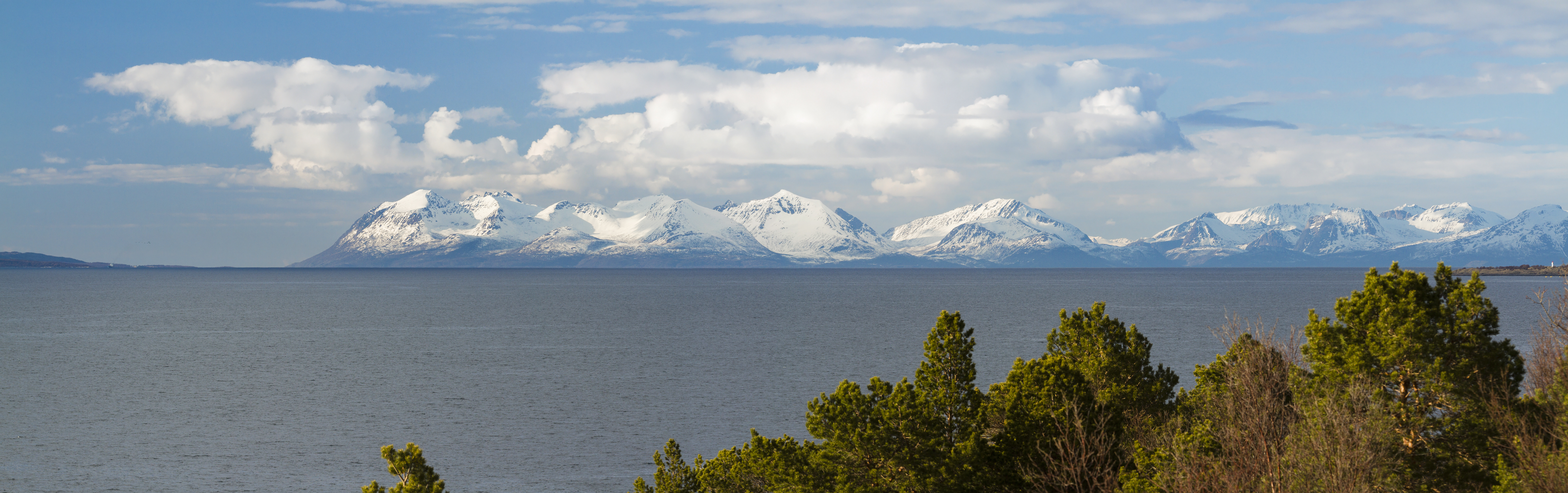 A distant evening view to the mountains of island Senja over Vågsfjorden from Skånland, Troms, Norway in 2015 April.